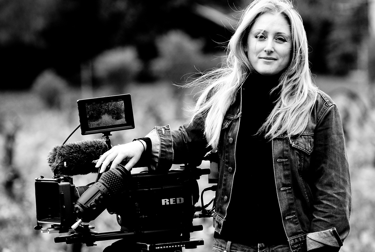 Tatyana Detig